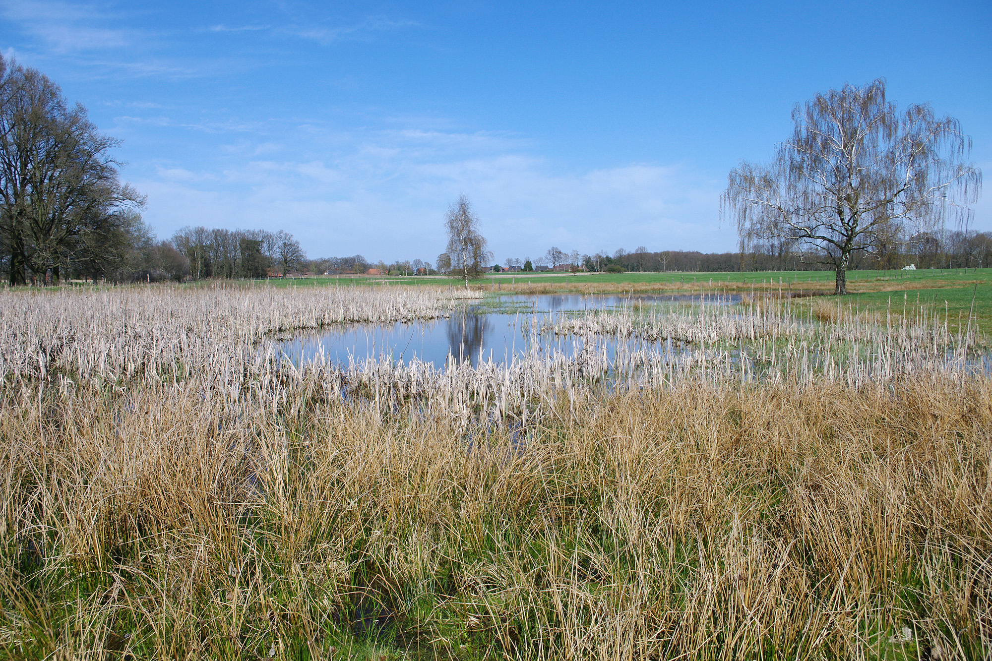 Natural monument "Oetzendorf/Mührgehege" at the village Oetzendorf (district Uelzen, north-eastern Lower Saxony, Germany).